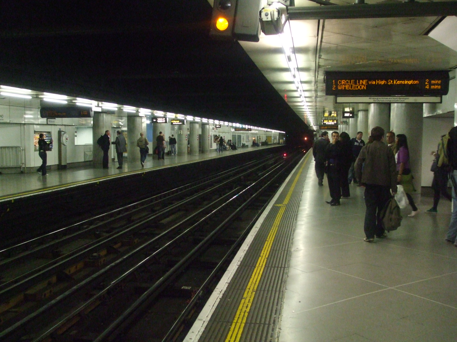 Embankment tube station District and Circle line platforms looking east